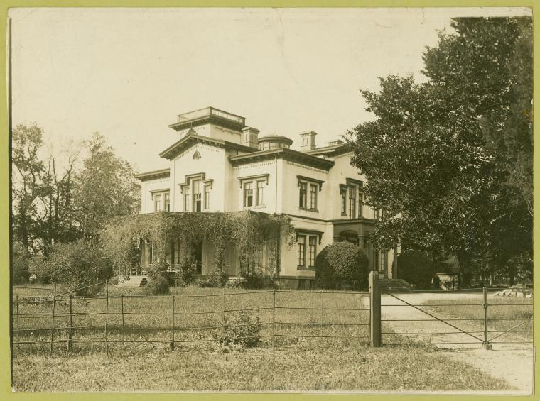 Remodeled Bonaparte mansion, Bordentown, New Jersey